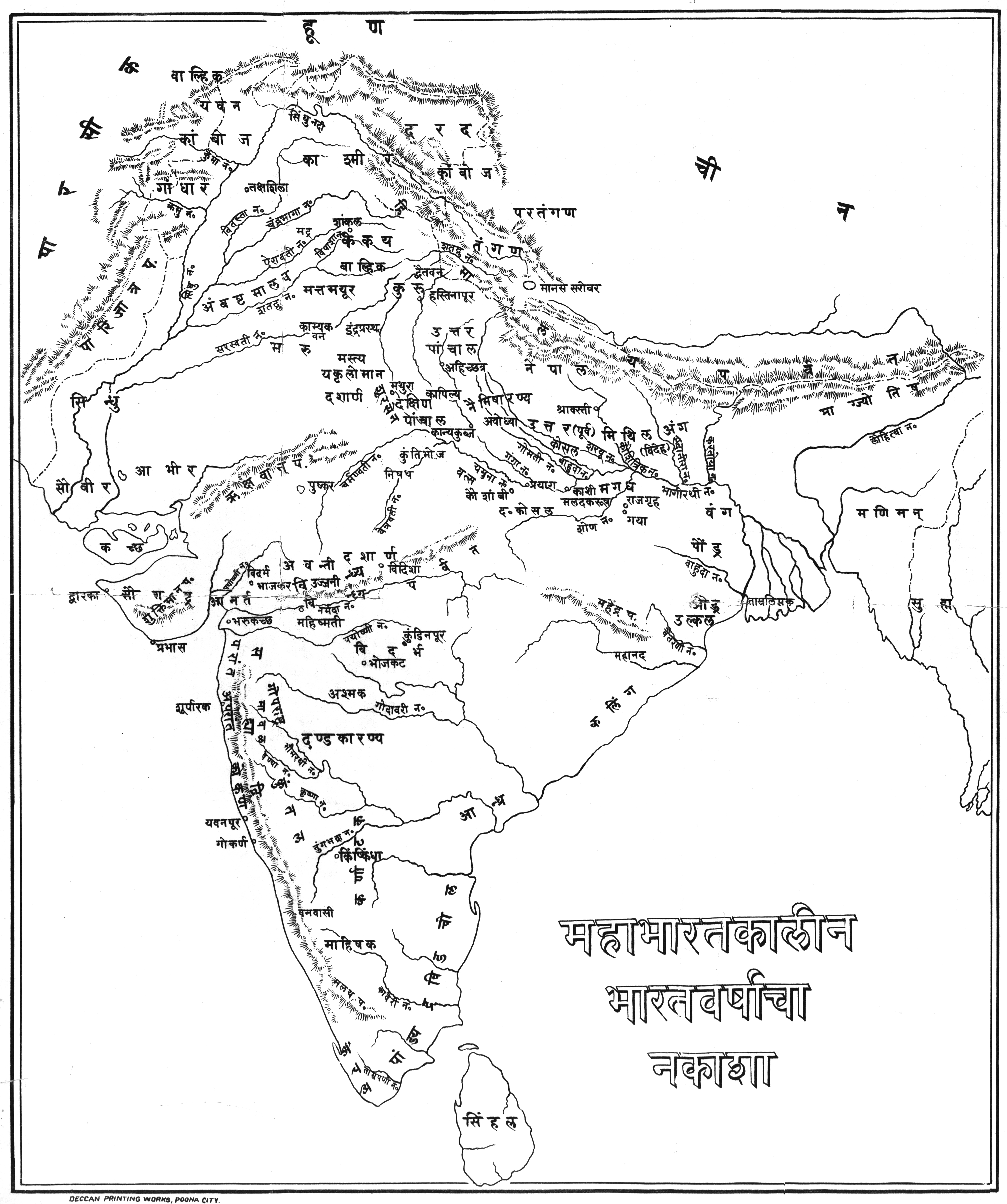 Shows place names in India associated with the Mahābhārāta (an important source for a knowledge of Hinduism as it evolved during the period ca. 400 B.C. to 200 A.D.). Relief shown by hachures. Language: Publication origin of the map is Pune, India. Map title is in Marathi language. Name of the locations are in Sanskrit. Mounted on cloth backing ; 45 x 38 cm.